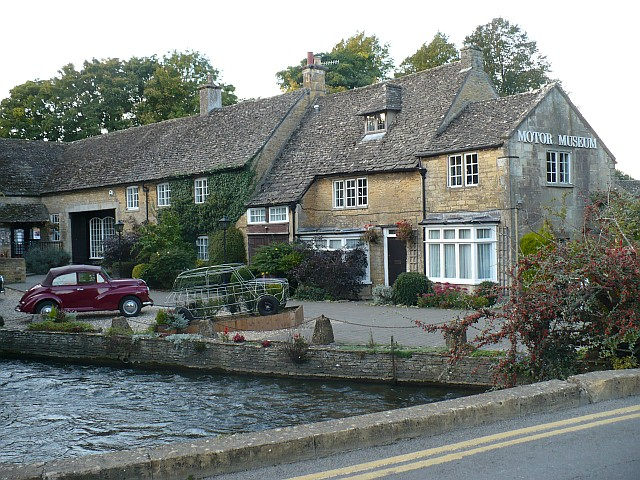 Motor Museum, Bourton-on-the-Water The Cotswold Motoring Museum, on the bank of the River Windrush, was opened in 1978.